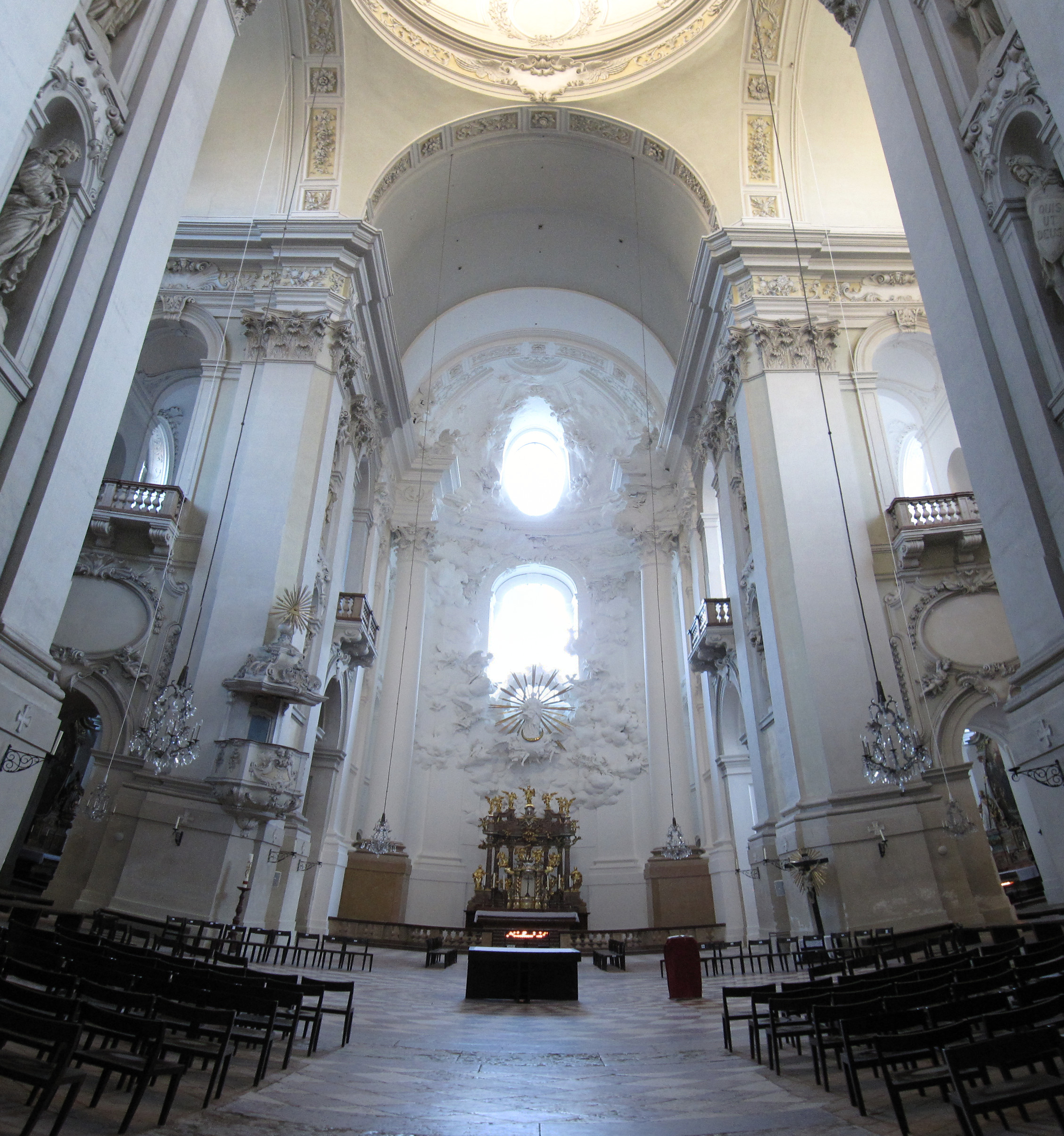 Austria, Salzburg, Kollegienkirche